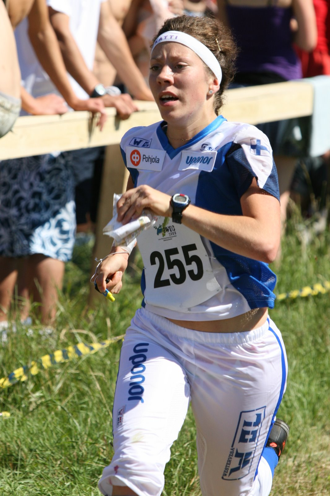 Venla Niemi (FIN) winner of JWOC 2008 middle